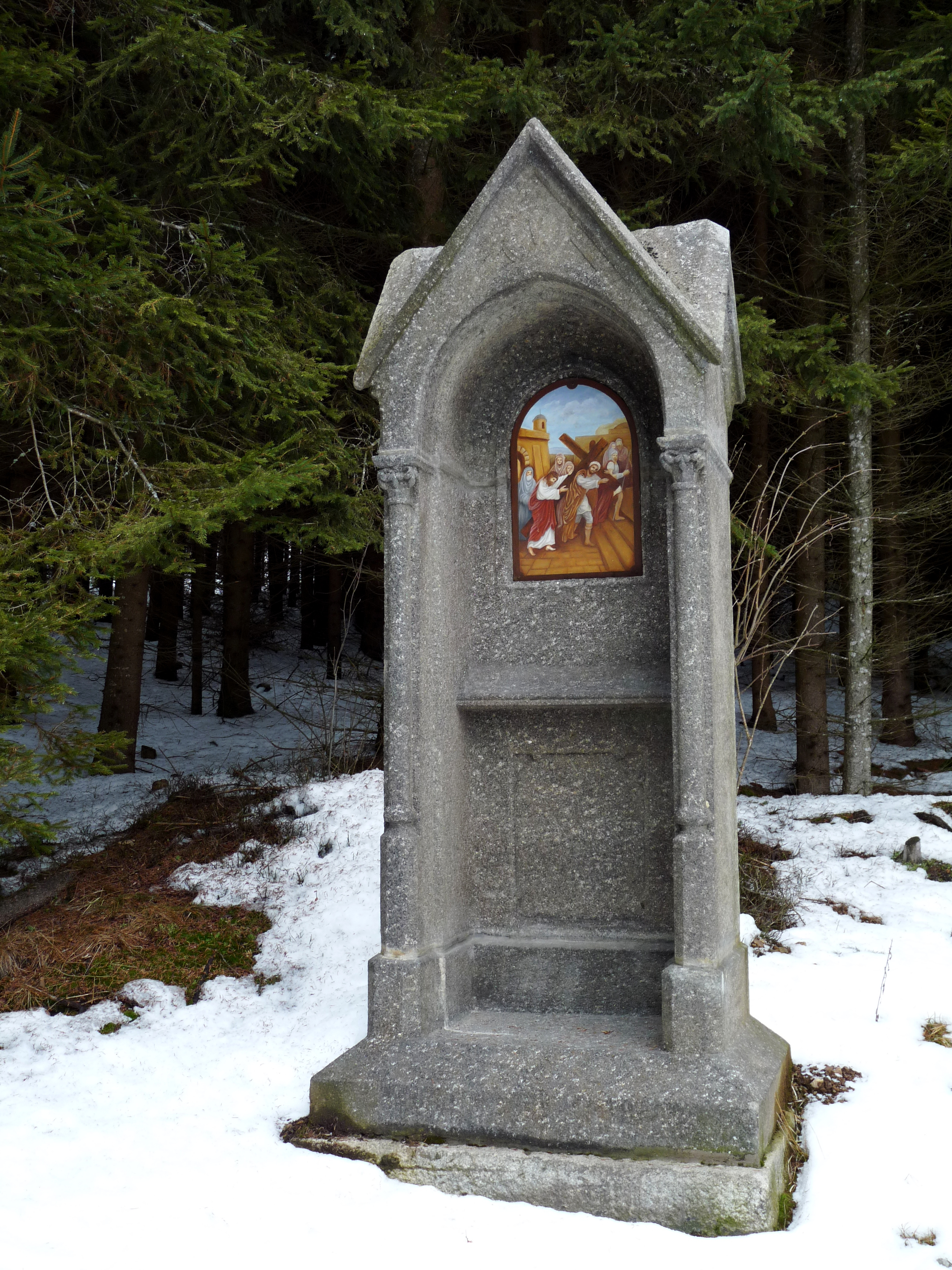 Stations of the Cross in the town of Volary, Prachatice District, South Bohemian Region, Czech Republic, chapel with scene V.